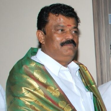 பாலகிருஷ்ணா ரெட்டி